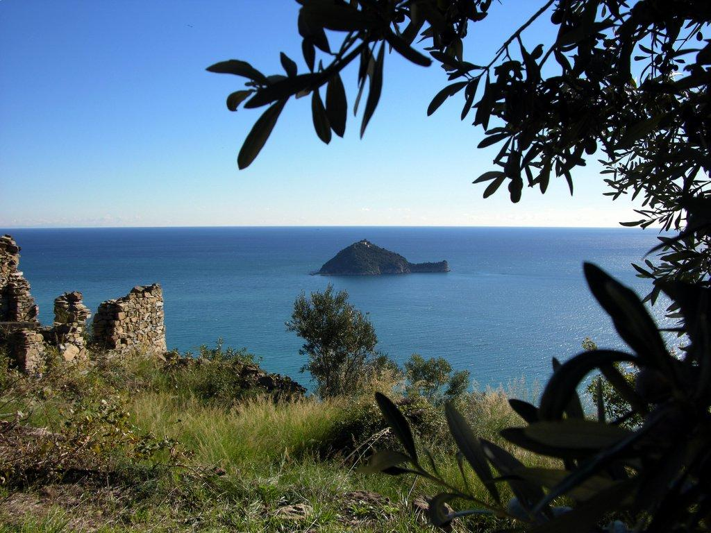 La Gallinara is a privately owned island on the coast of Albenga and Alassio, 1.5 miles away from the beach. There is a former monastary from Benedictinian monk on the island, as well as a watch tower of roman origin and a little chappel, which has been built to honour Saint Martin (the bishop of Tours/ France) who has been hiding on this island for some years when he was persecuted by the Heretics. In world war 2 , almost 2000 German soldiers were stationed on the island . They built 16 km of tunnel system underground on the island , which can still be seen today .